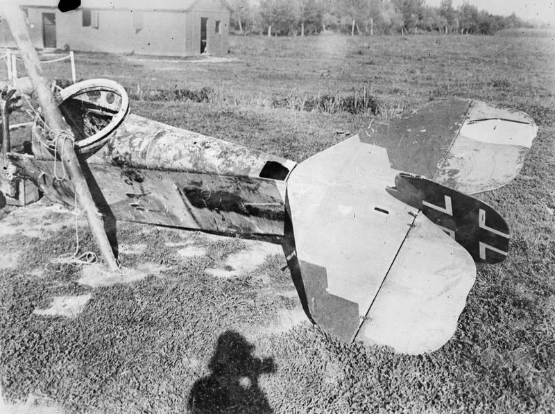 Ministry of Information First World War Official Collection Fuselage and tail of an Austrian PHOENIX two-seater brought down by Captain John Cottle, M. C. No. 45 Squadron.